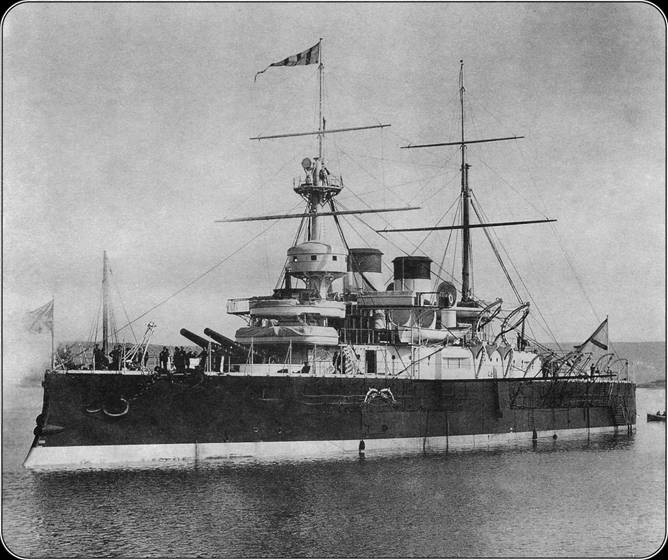 Imperial Russian bronenosets Dvenadtsat' Apostolov.